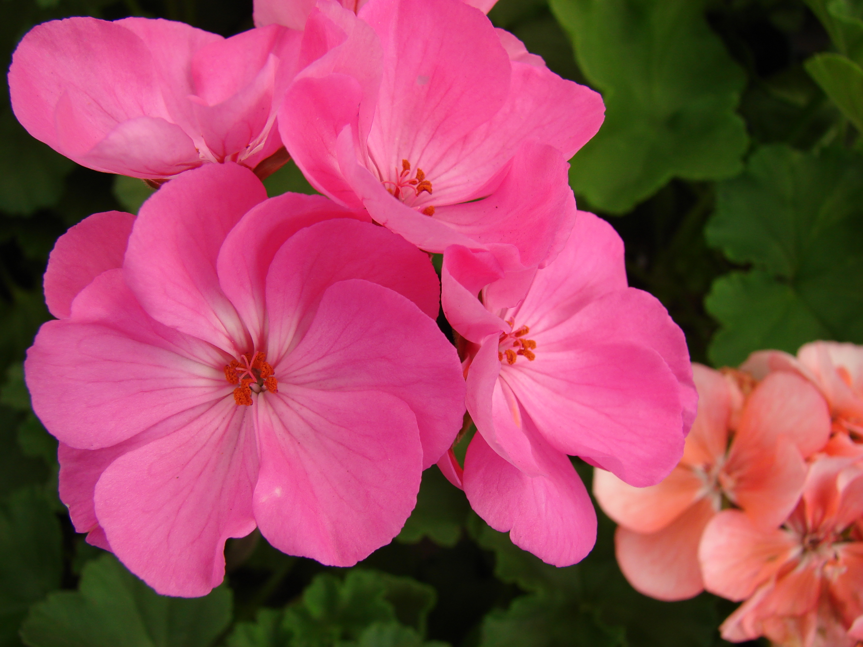 Pelargonium x hortorum (flowers). Location: Maui, Walmart Kahului